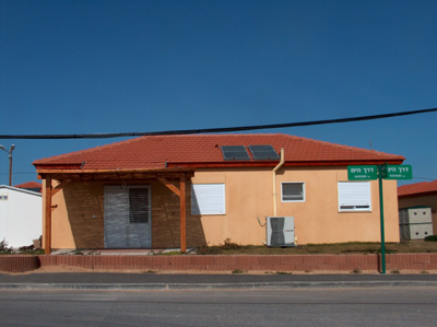 Front of a typical Karavila in Nitsan. Original Description was: :קרוילה ביישוב ניצן, בו שוהים חלק ממפוני גוש קטיף. :2/2006 (per correspondence with creator)